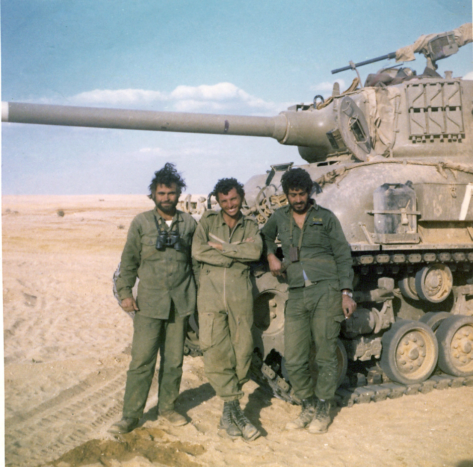 Israel Defense Forces